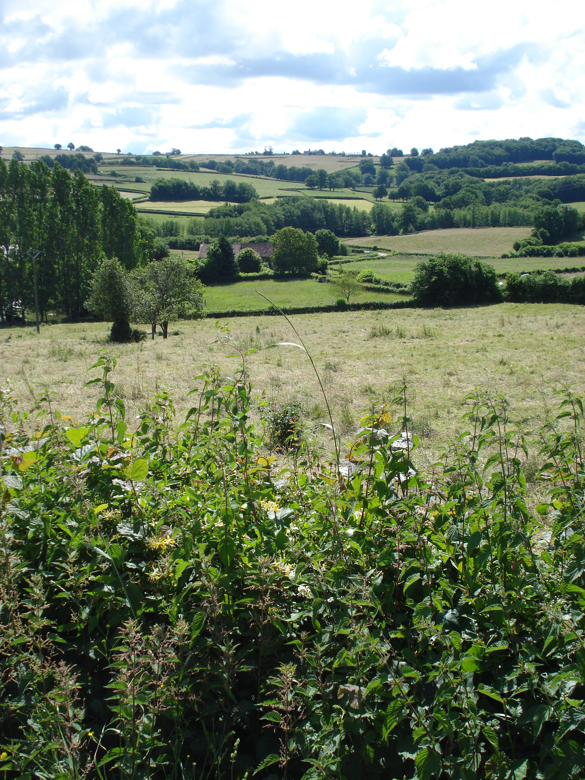 Landscape at Meulot (Saint-André-en-Morvan, Nièvre, Fr).